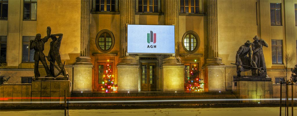 AGH in Kraków - Statues of miners and metallurgist